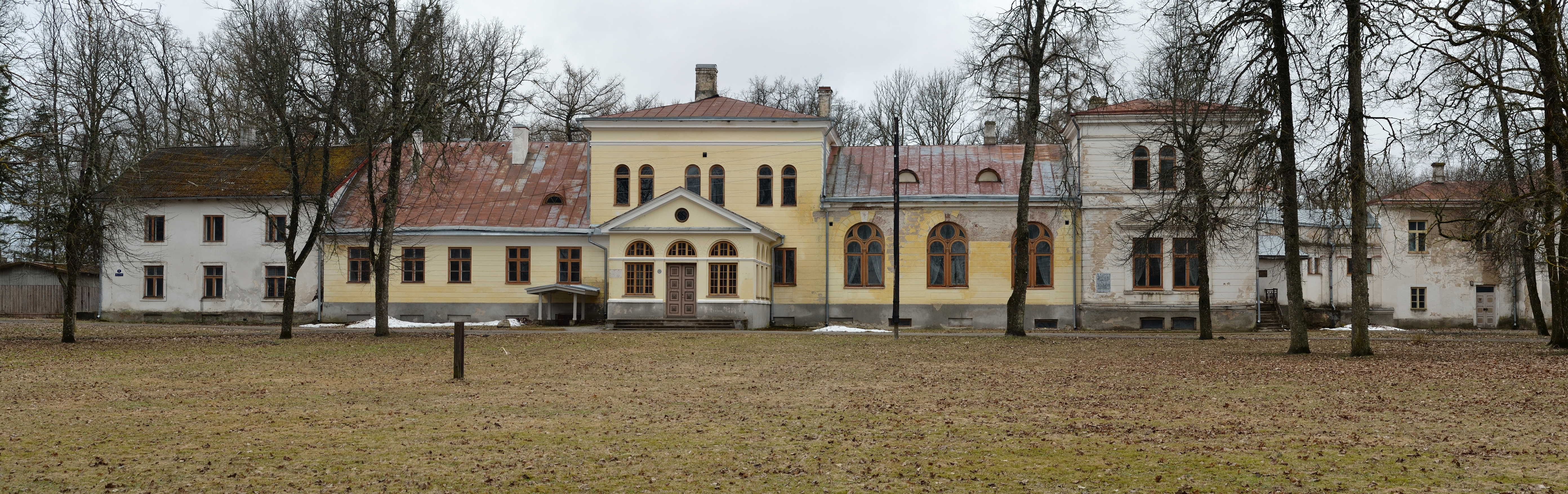 Avanduse manor main building